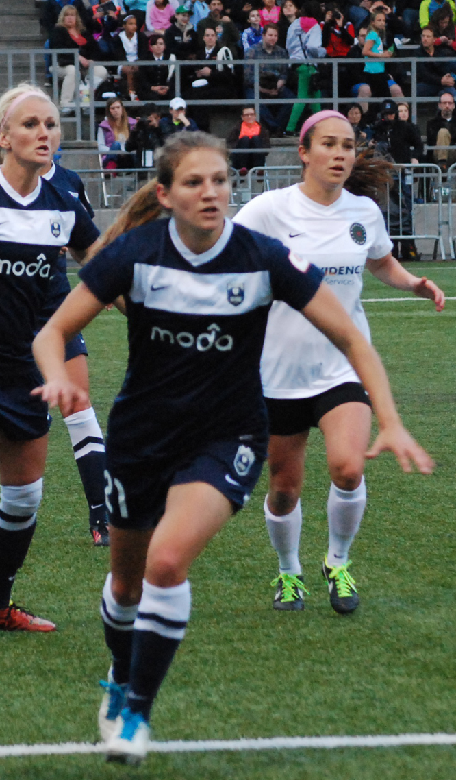 Seattle Reign FC defender Kristen Meier in a match against the Portland Thorns on May 25, 2013 at Starfire Stadium in Tukwila, Washington.